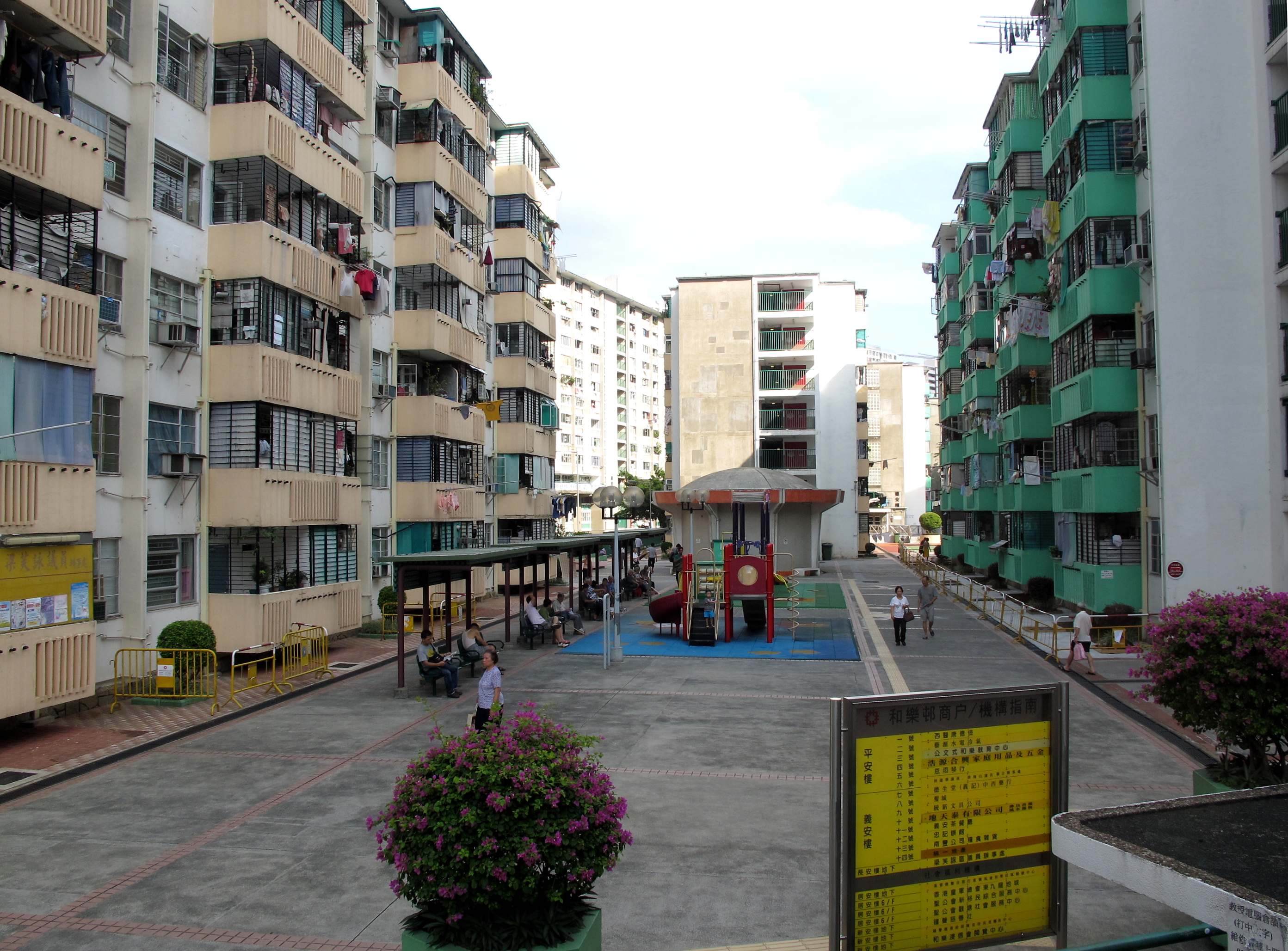 Wo Lok Estate